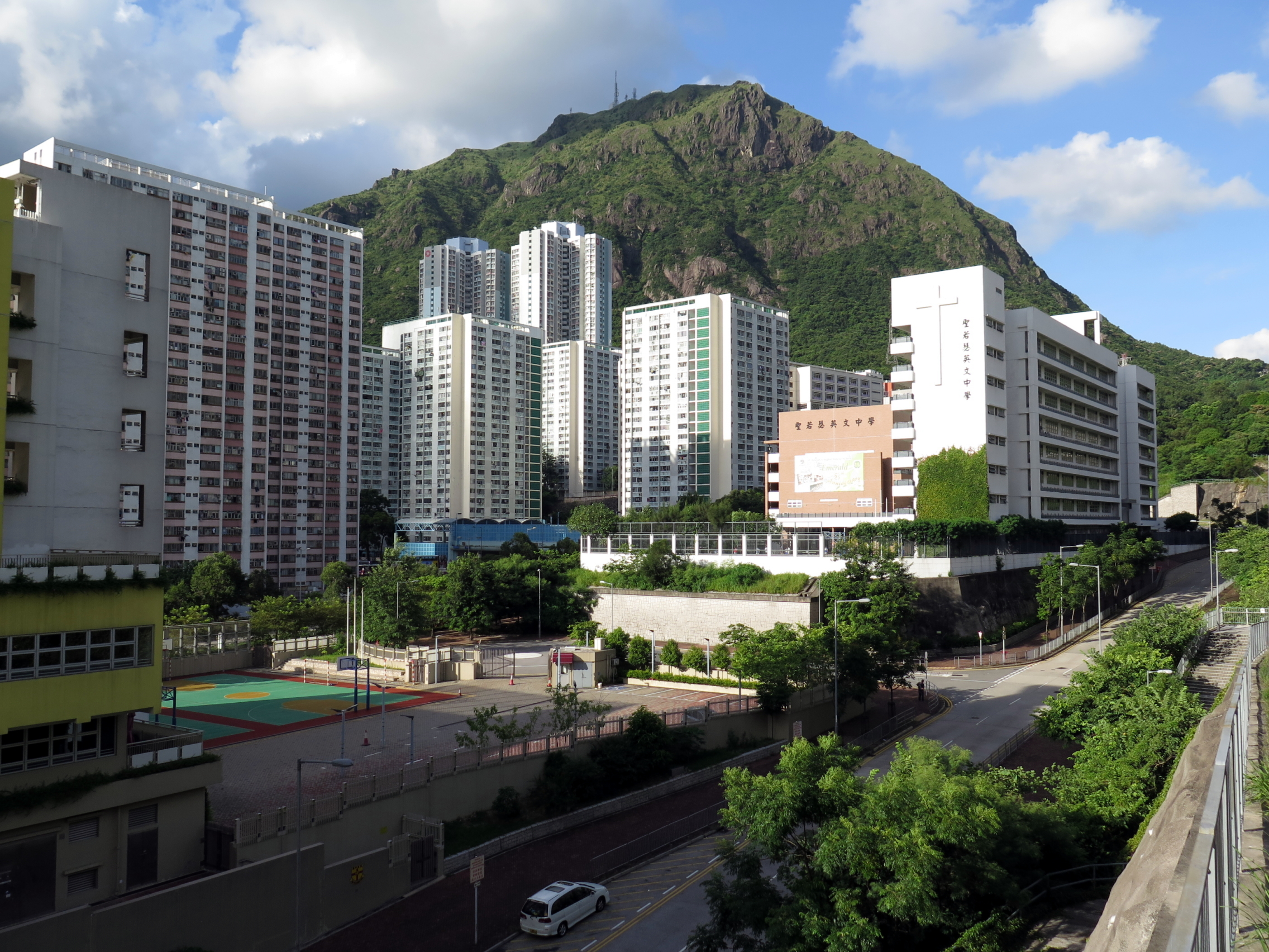 Choi Hing Road